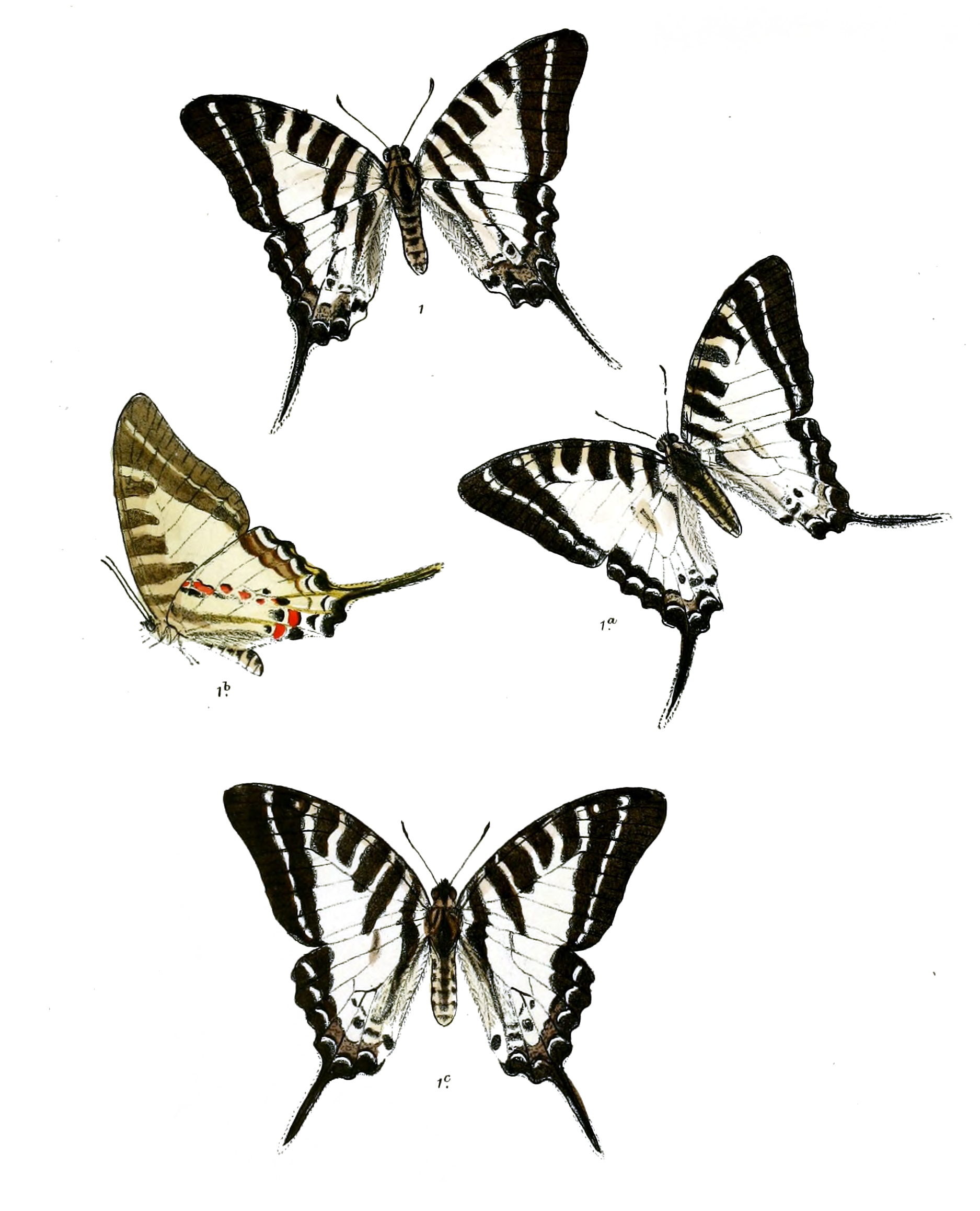 Pathysa anticrates = Graphium aristeus anticrates